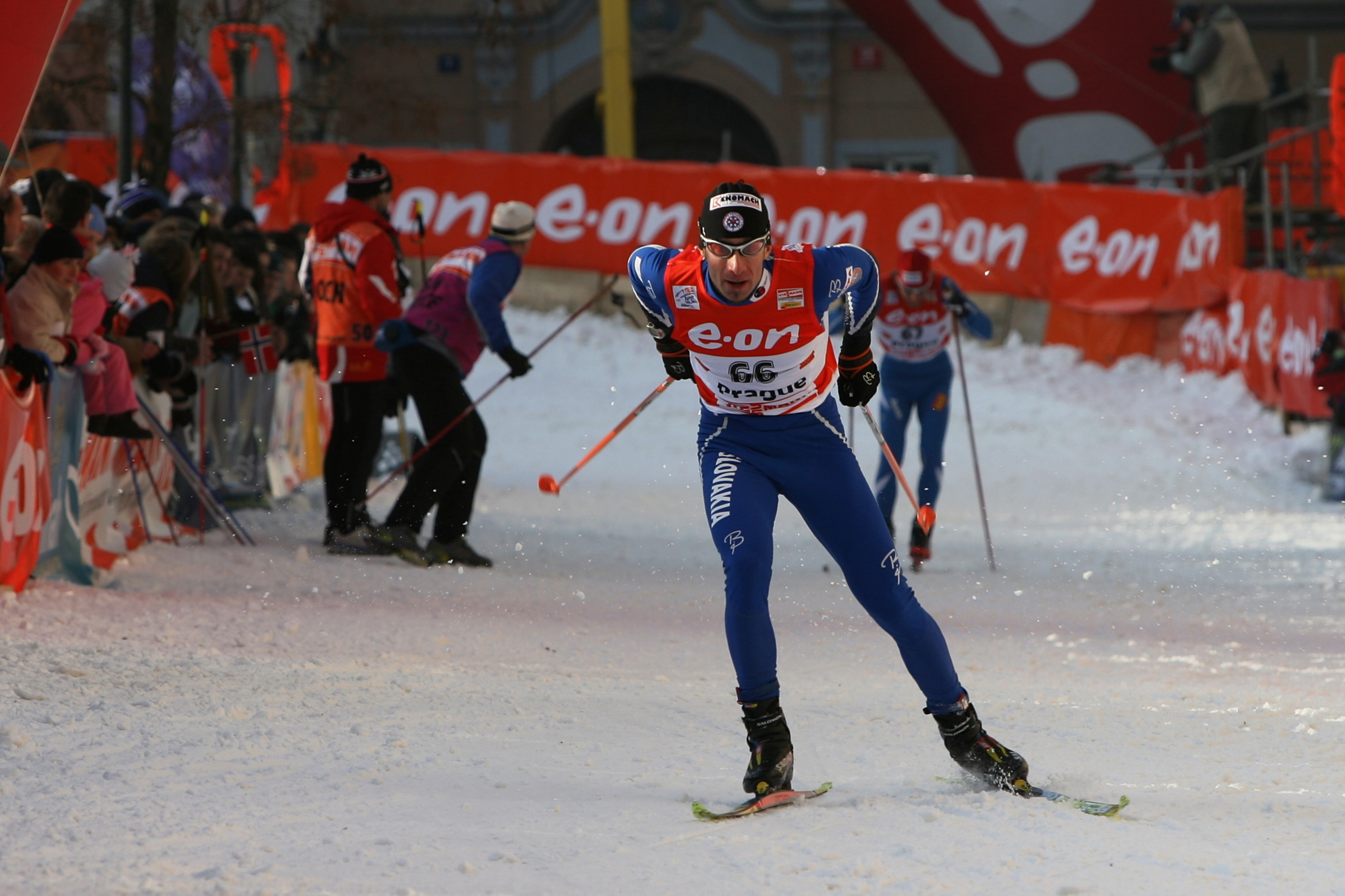 Michal Malák in the qualification of Tour de Ski in Prague.